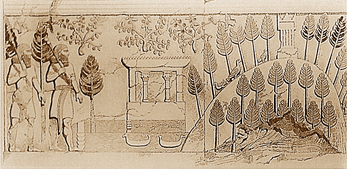 Park of Sargon II, ilustration from Botta, P. E., and Flandin, E. (1849-1850) Monument de Ninive